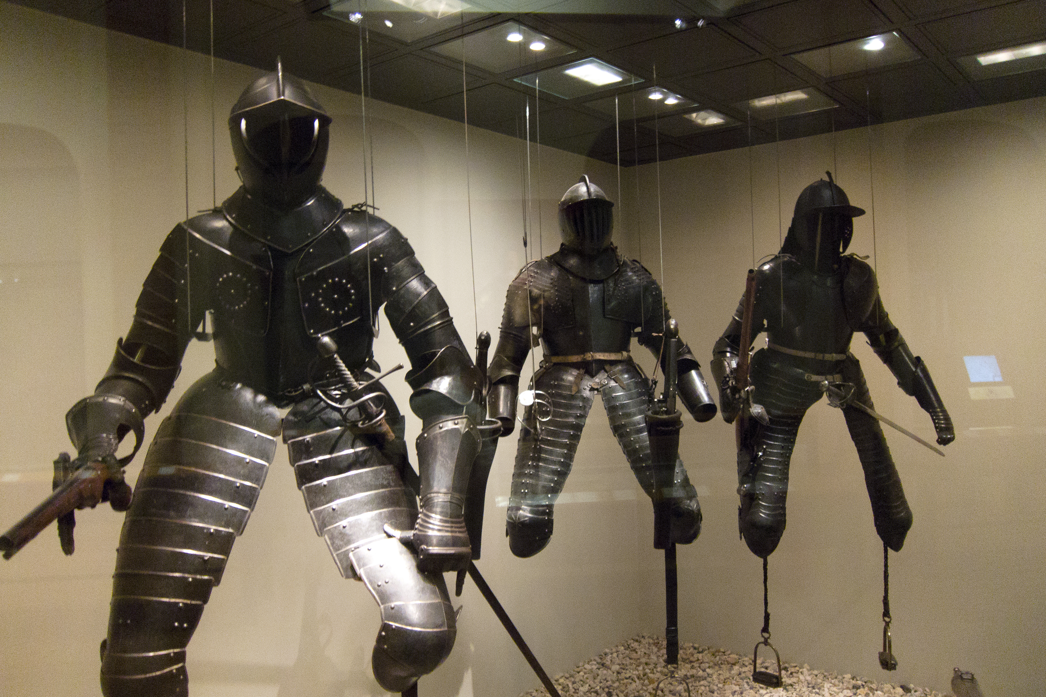 Suits of armour for curassiers (16th or 17th century?), on exhibit at a Berlin museum in 2011